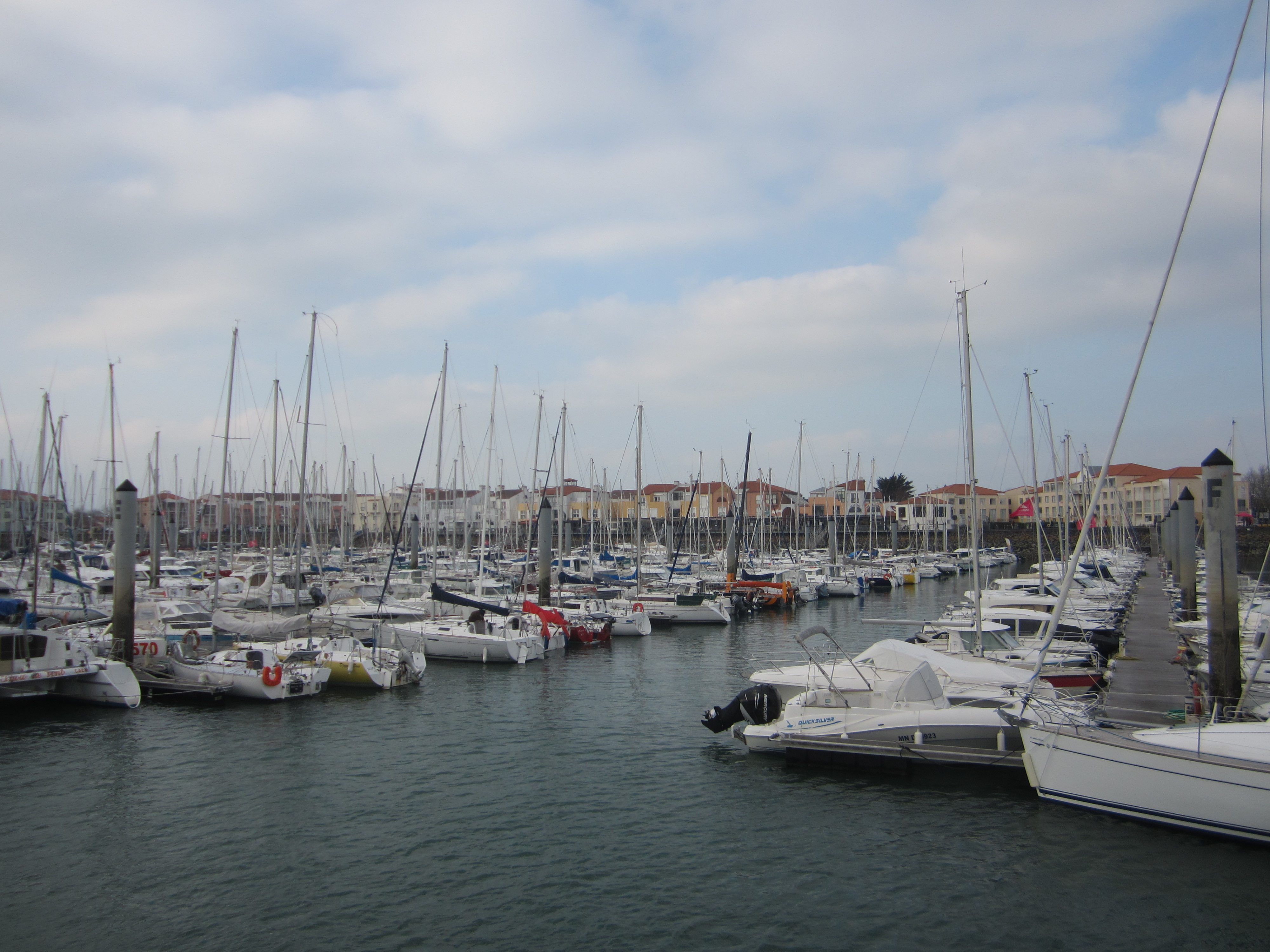 Port Olona